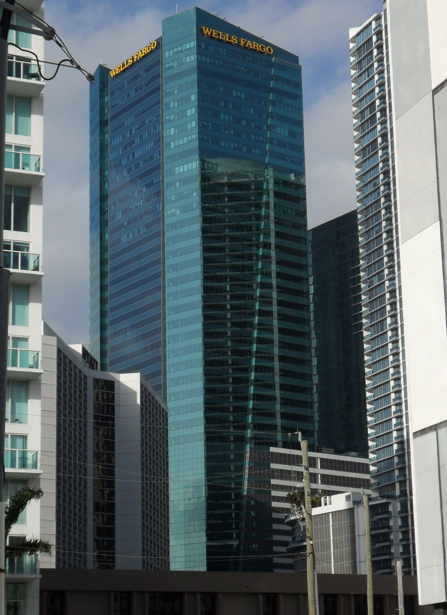 Met 2 Miami, Wells Fargo Center building, viewed from the Southwest.